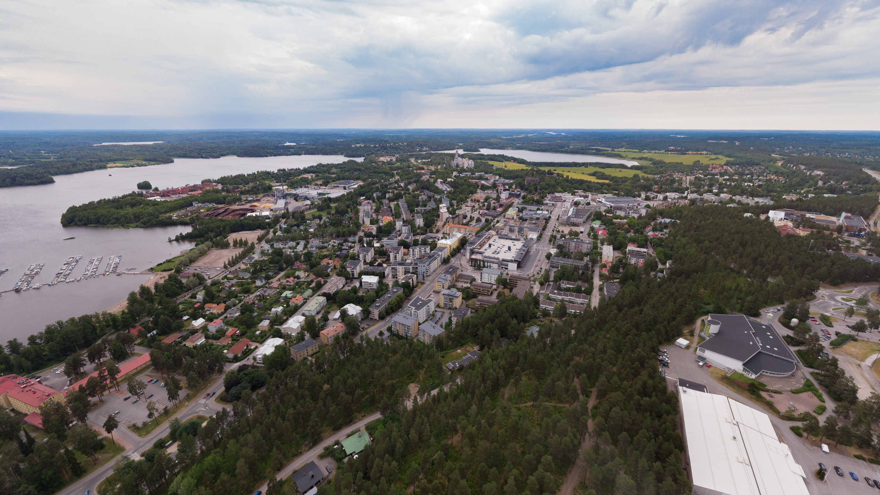 Aerial view of the central district of Lohja, Finland.